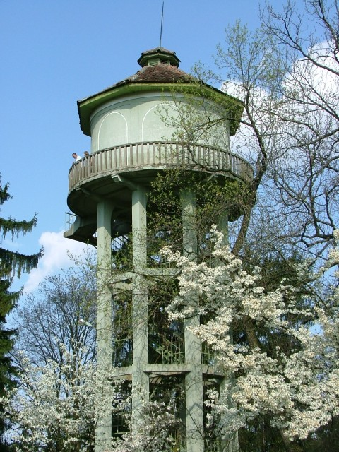 Botanical Garden in Cluj-Napoca. The water tower.